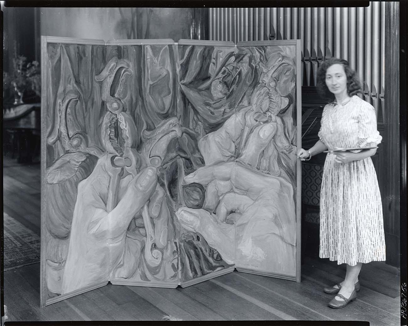 Description: Elizabeth Tashjian, aka The Nut Lady, championed the nut by not only creating her own inventive portraits of a variety of nut and nutcrackers, but by opening her own nut museum in Old Lyme Connecticut. She was the daughter of aristocratic Armenian immigrants and studied at the New York school of Applied Design for Women as well as the National Academy of Design. Later in life, she appeared on the shows of Johnny Carson, David Letterman, Jay Leno, Howard Stern and Chevy Chase, to promote nuts and the Nut Museum. Creator/Photographer: Peter A. Juley & Son Medium: Black and white photographic print Dimensions: 8 in x 10 in Culture: American Persistent URL: Repository: Collection: Peter A. Juley & Son Collection - The is comprised of 127,000 black-and-white photographic negatives documenting the works of more than 11,000 American artists. Throughout its long history, from 1896 to 1975, the Juley firm served as the largest and most respected fine arts photography firm in New York. The Juley Collection, acquired by the Smithsonian American Art Museum in 1975, constitutes a unique visual record of American art sometimes providing the only photographic documentation of altered, damaged, or lost works. Included in the collection are over 4,700 photographic portraits of artists. Accession number: J0056756